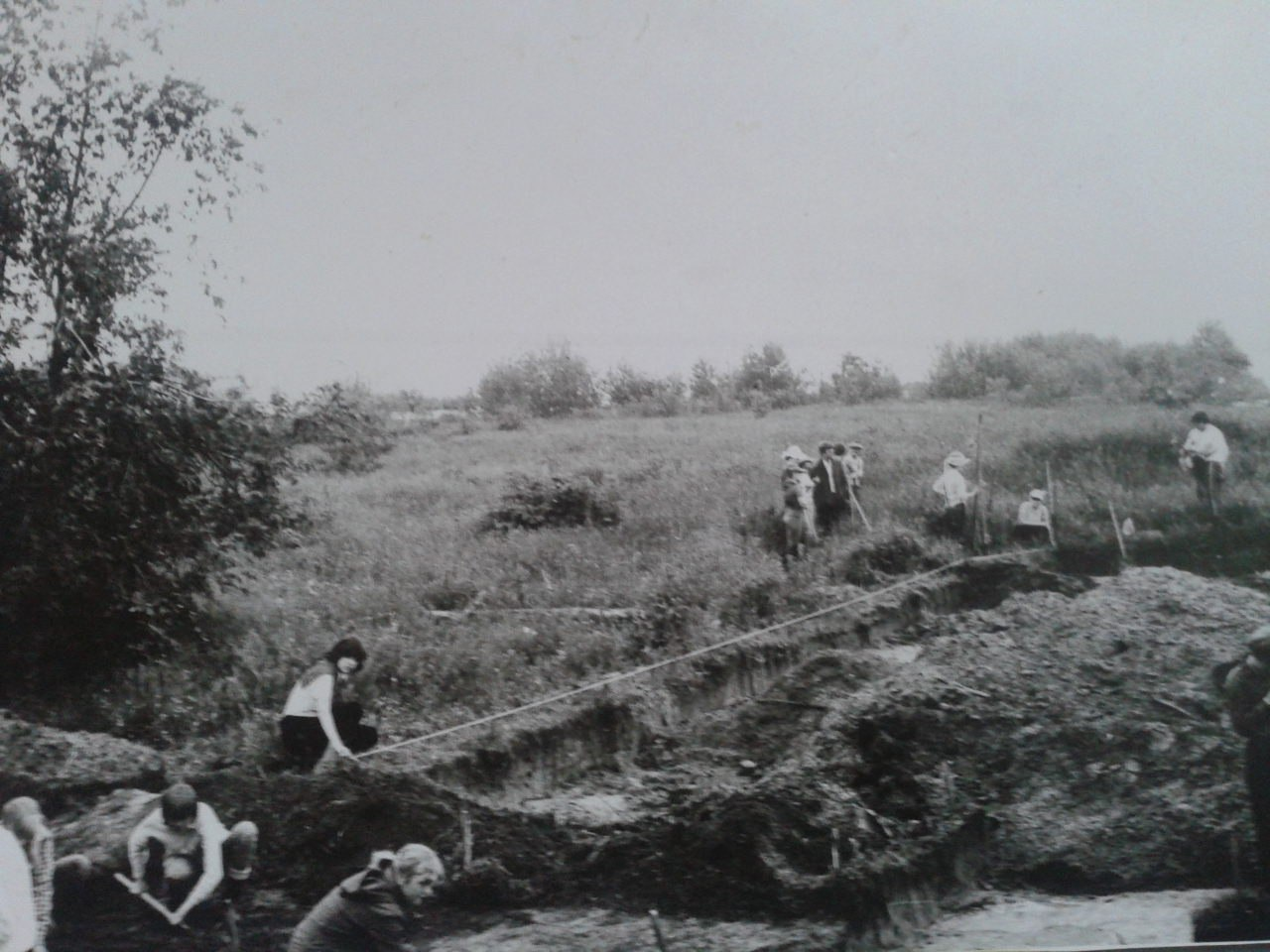 Archaeological practice student of historical and philological faculty of the Mari State University 1985.It is on the island Вorony located at the confluence of the Vetluga and the Volga rivers.